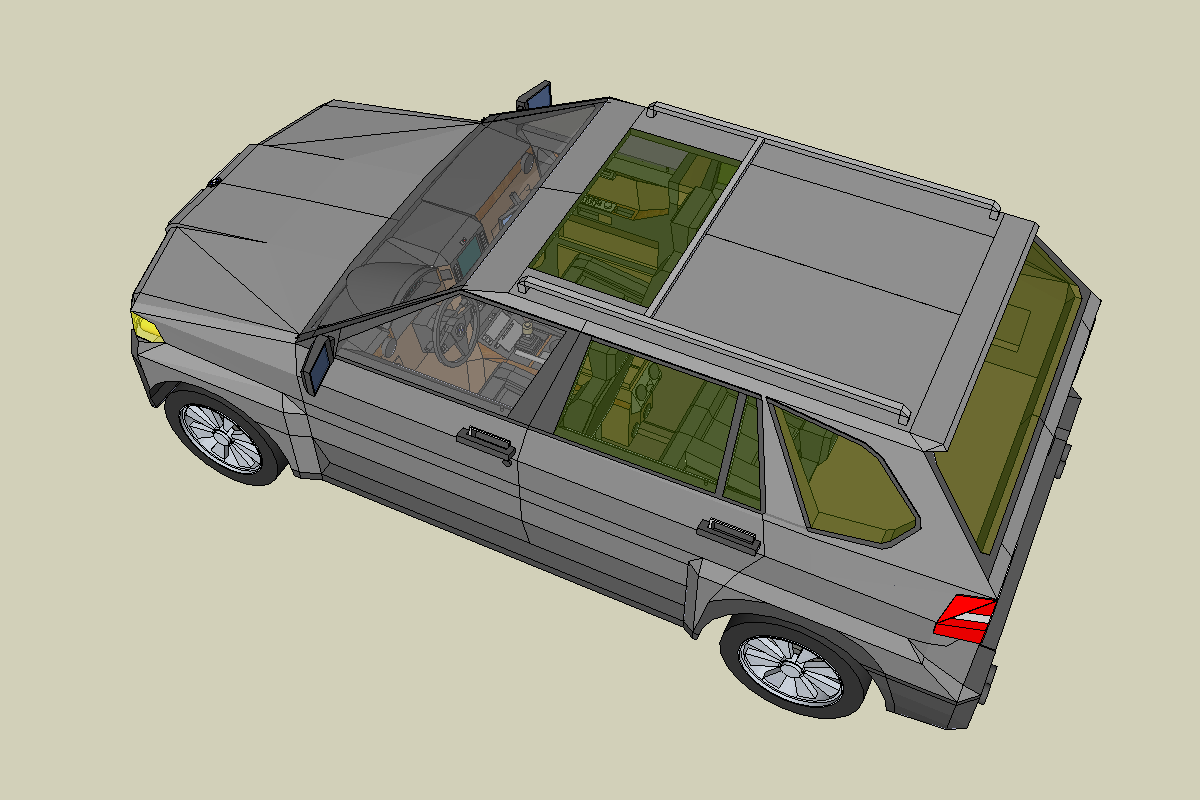 Model created by user using free version of Google Sketchup.